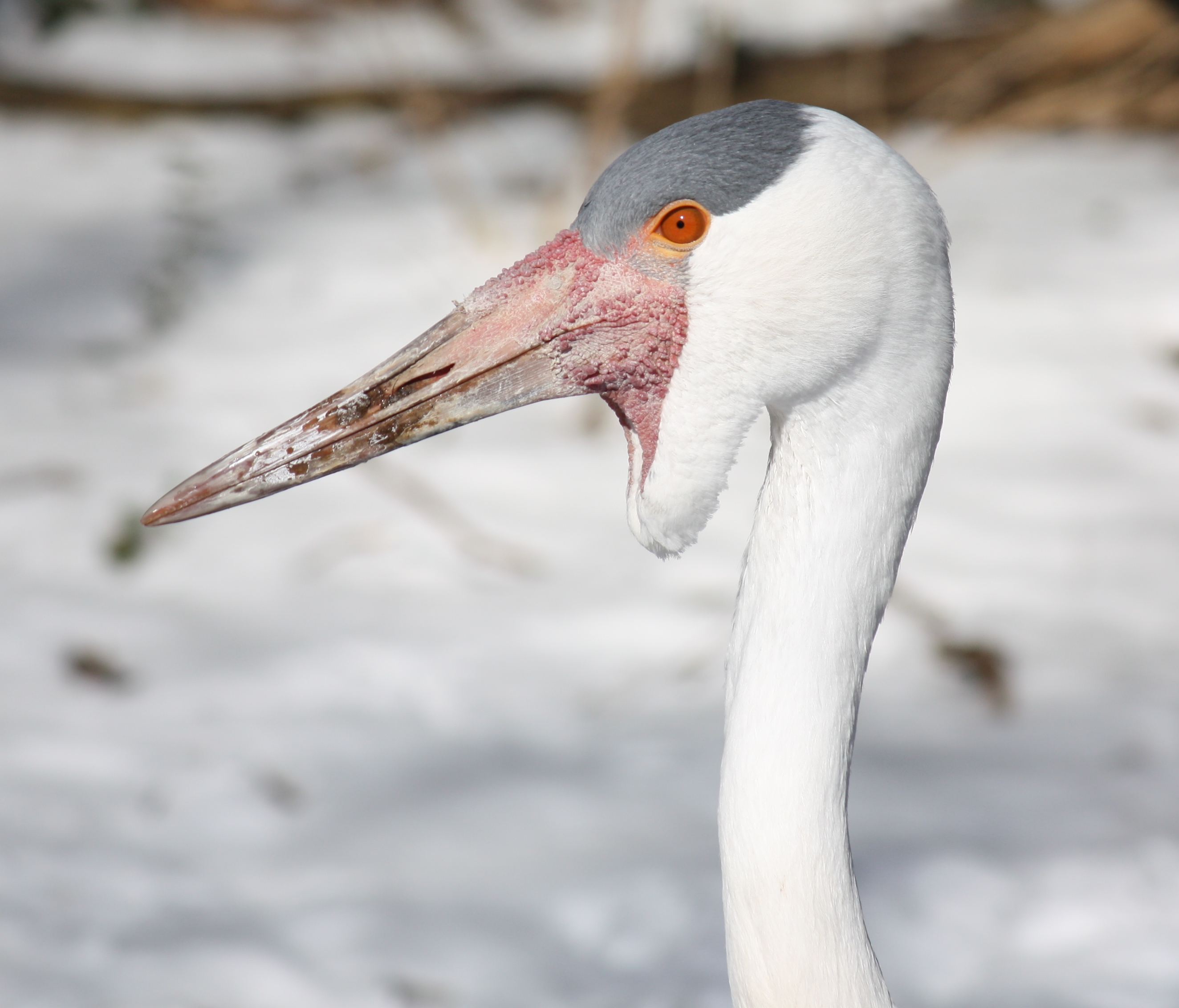 Wattled Crane Bugeranus carunculatus at the Louisville Zoo